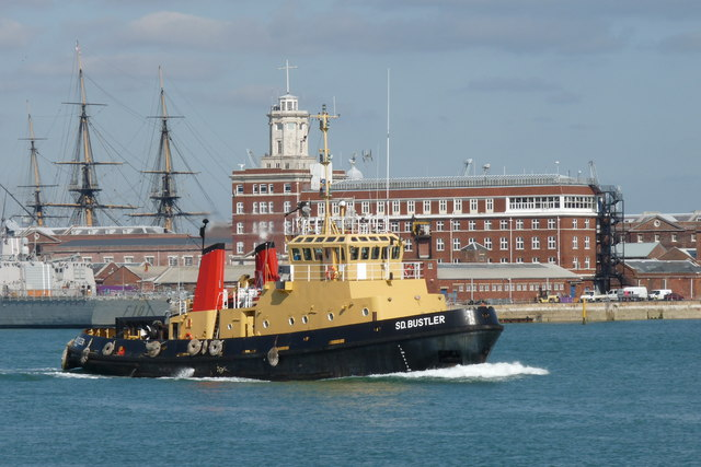 SD.Bustler in Portsmouth Harbour